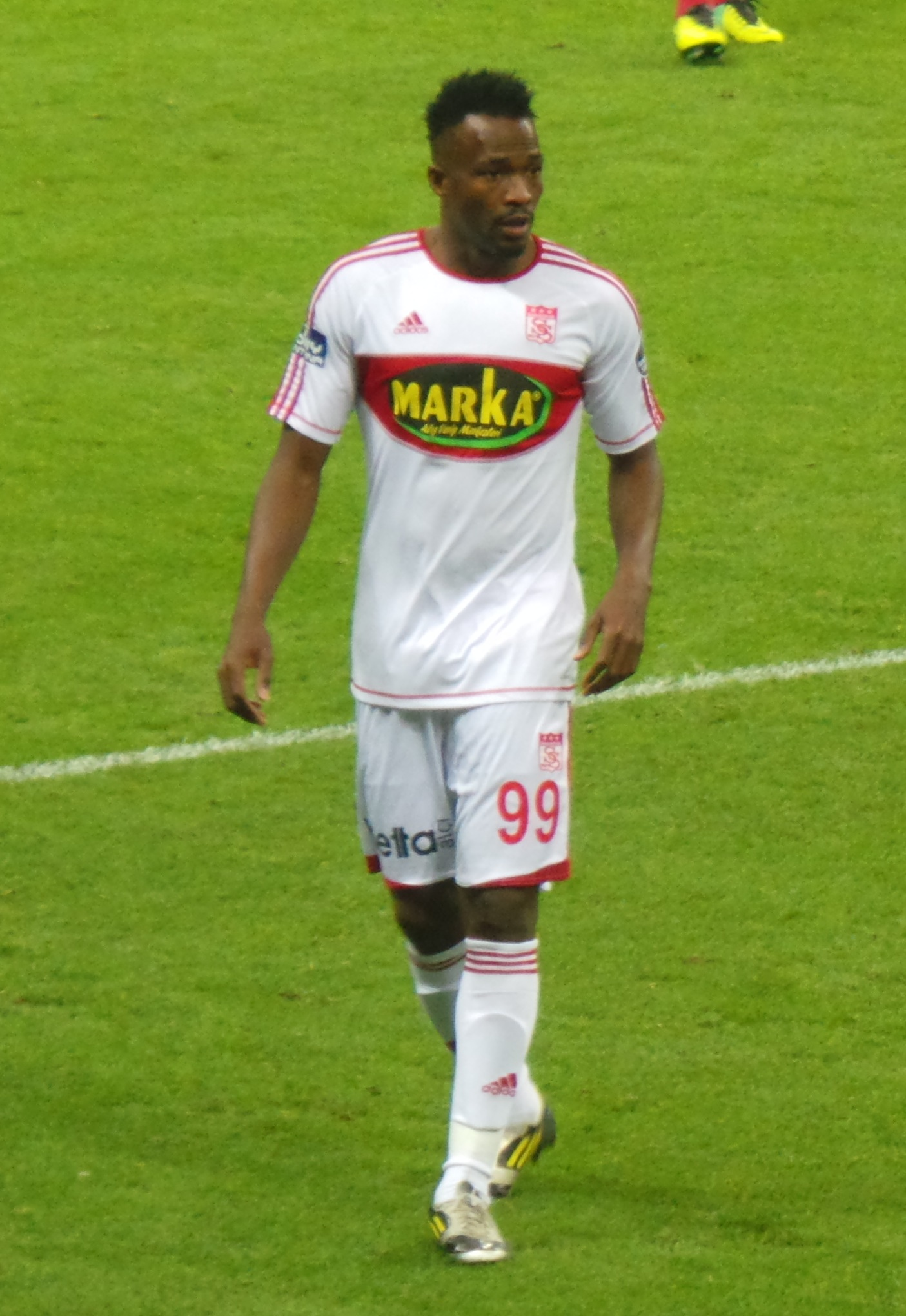 John Utaka playing against G.S.